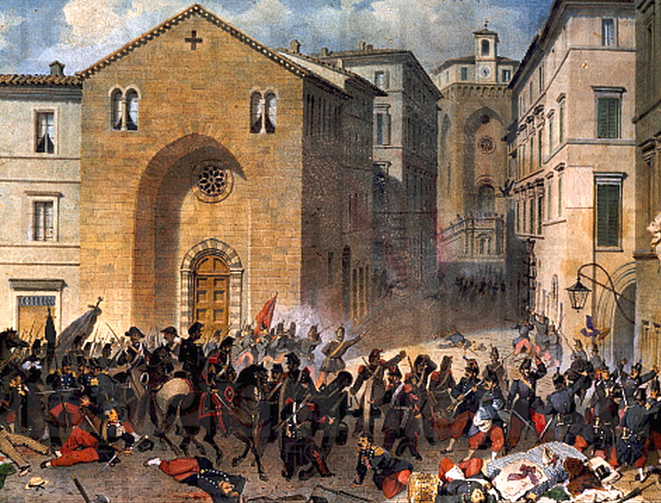 The Massacre at Perugia (Risorgimento event on June 20, 1859)